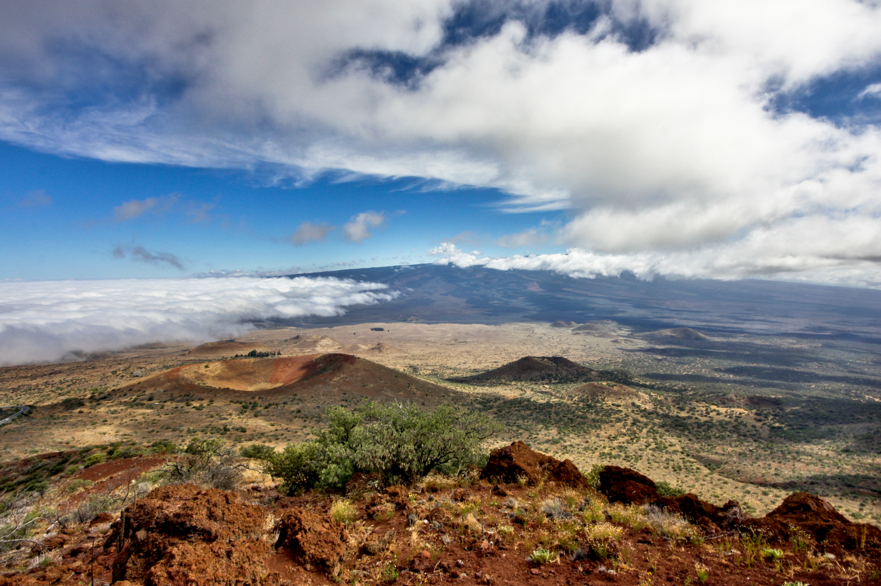 The largest volcano on Earth (volume and area) gently defines the horizon from the southern flank of Mauna Kea.